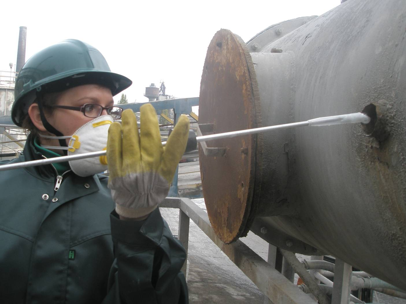 Odour_Sampling_1